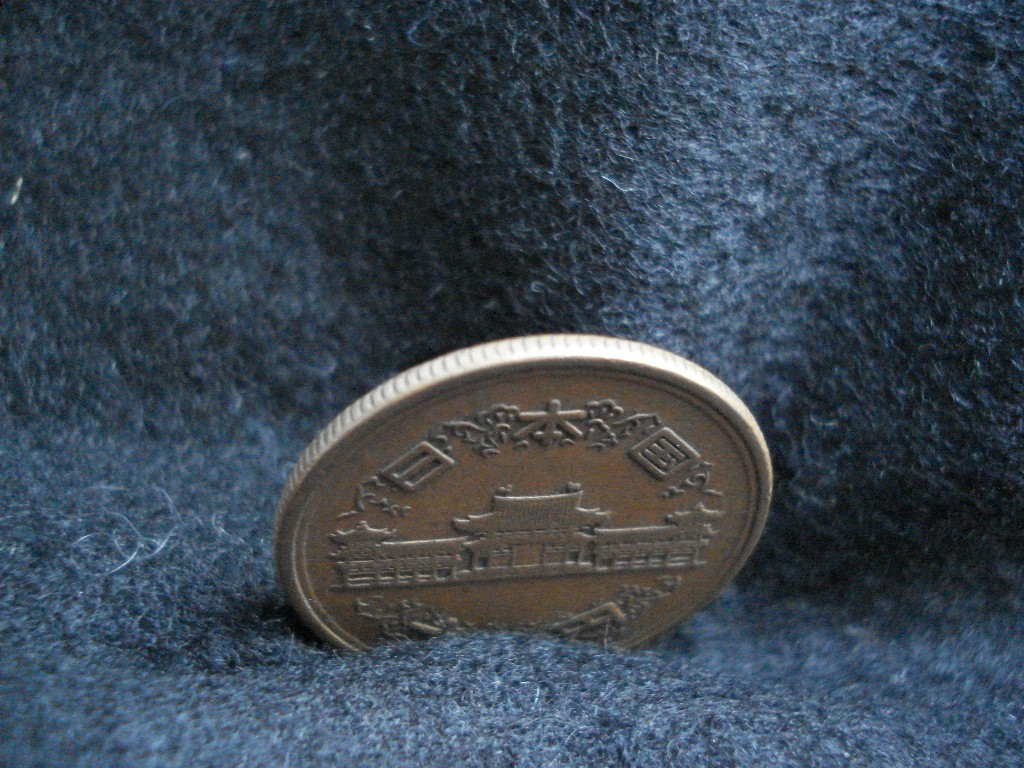 Japanese coins. 10yen, Bronze. Made in 1952(Showa 27).